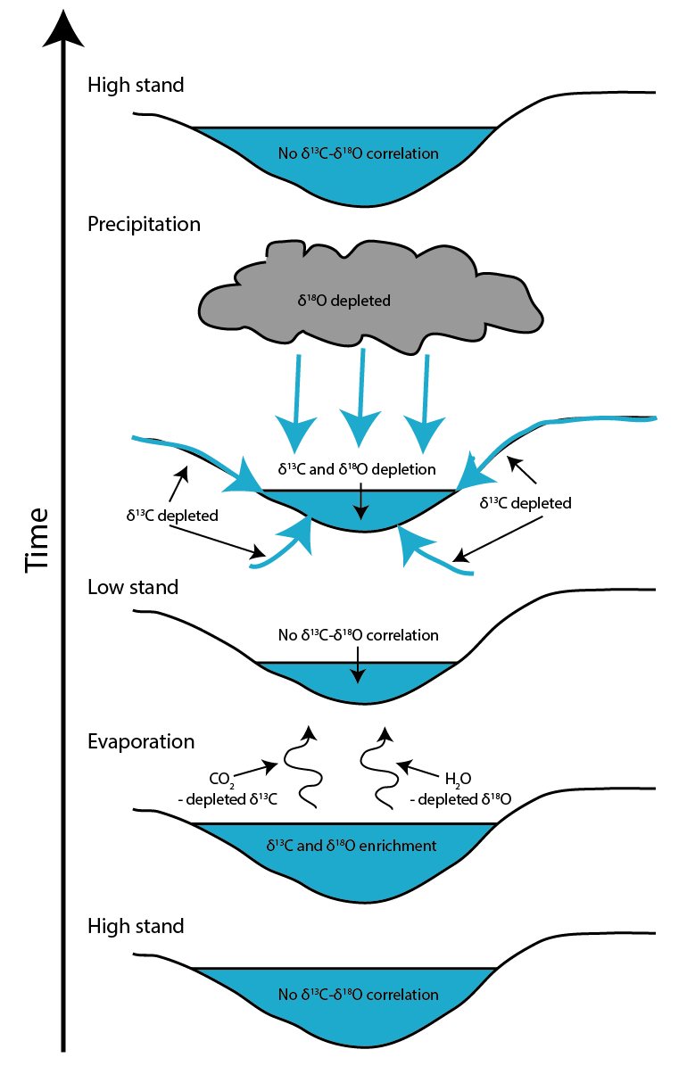 How d18O and d13C may covary with changes in lake levels for Mono Lake.